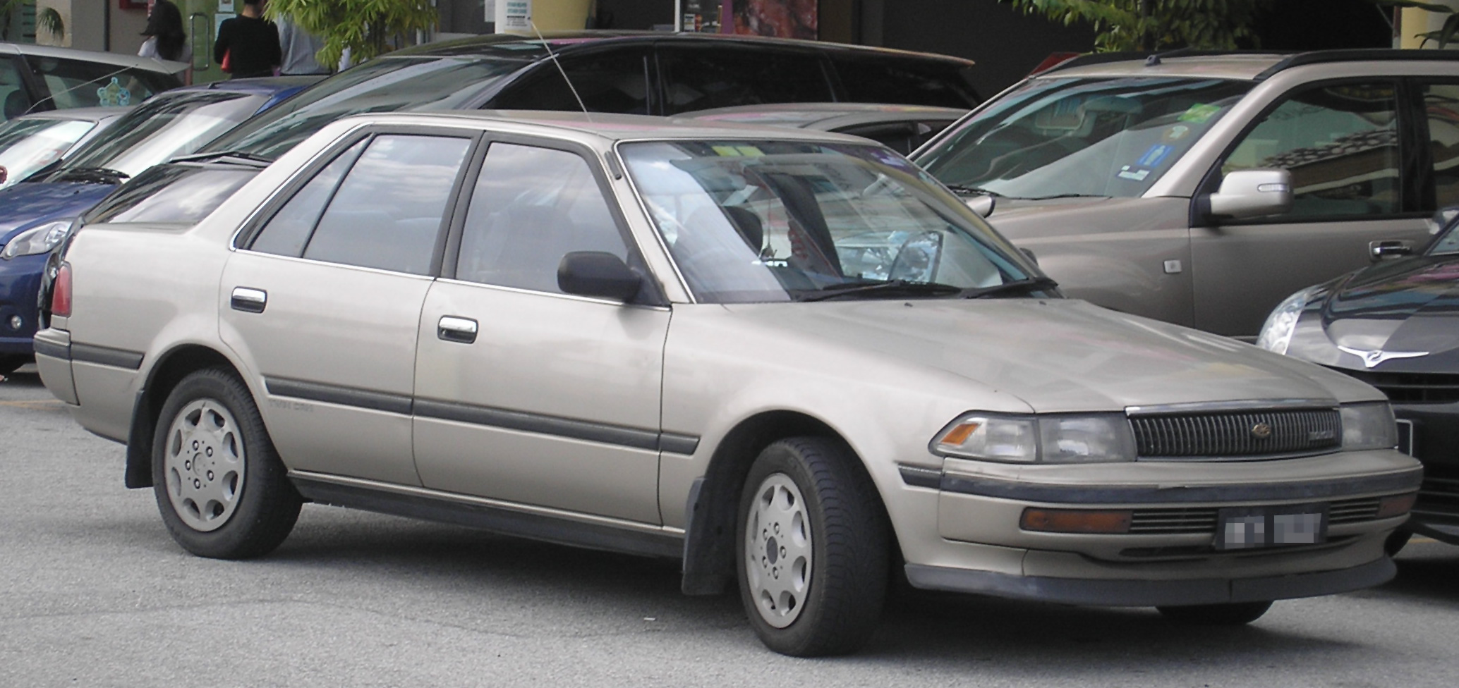 Front-side shot of a Toyota Corona (T170), in Serdang, Selangor, Malaysia.